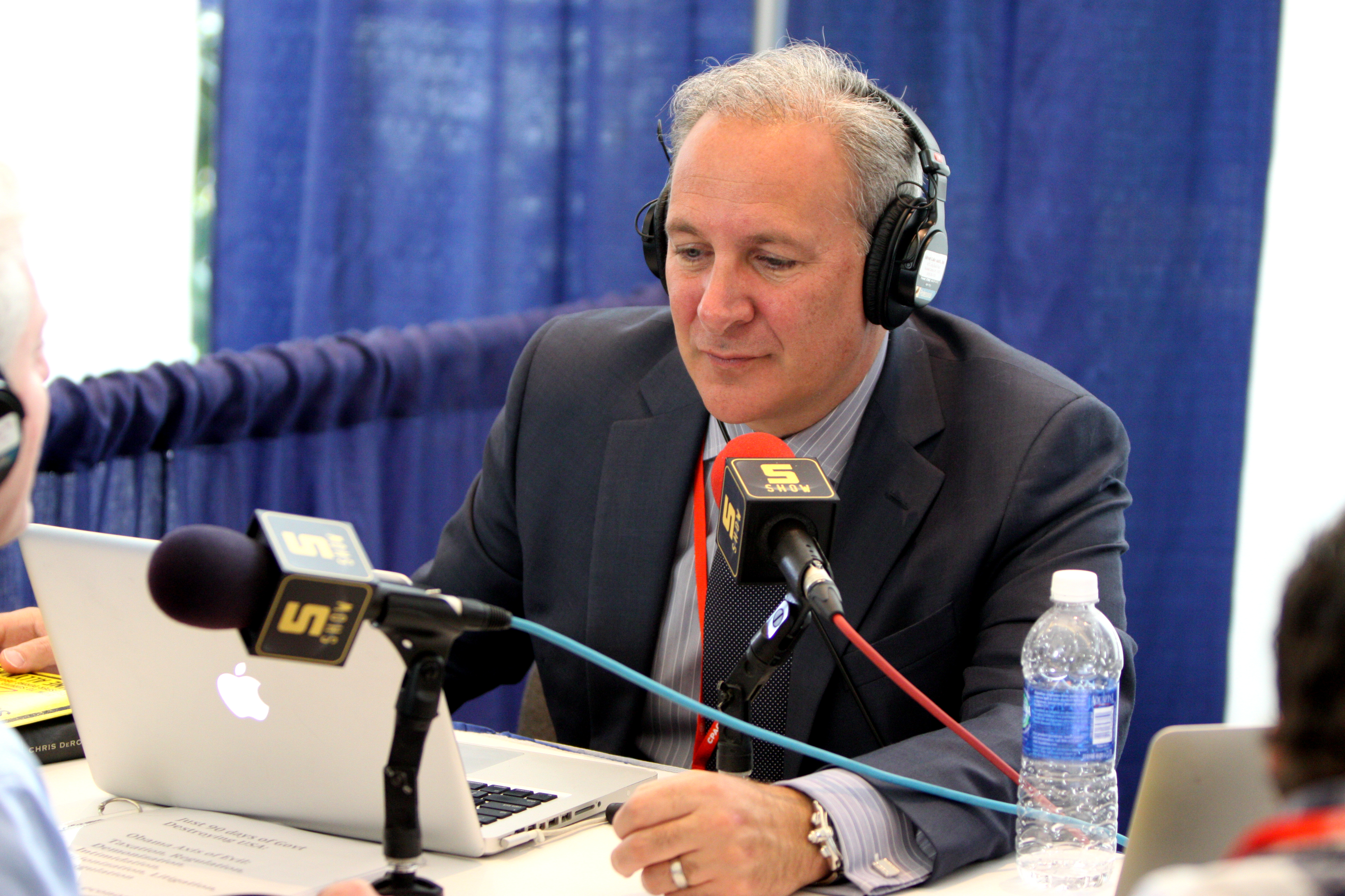 Peter Schiff speaking at the 2013 CPAC in Washington D.C. on March 15, 2013.